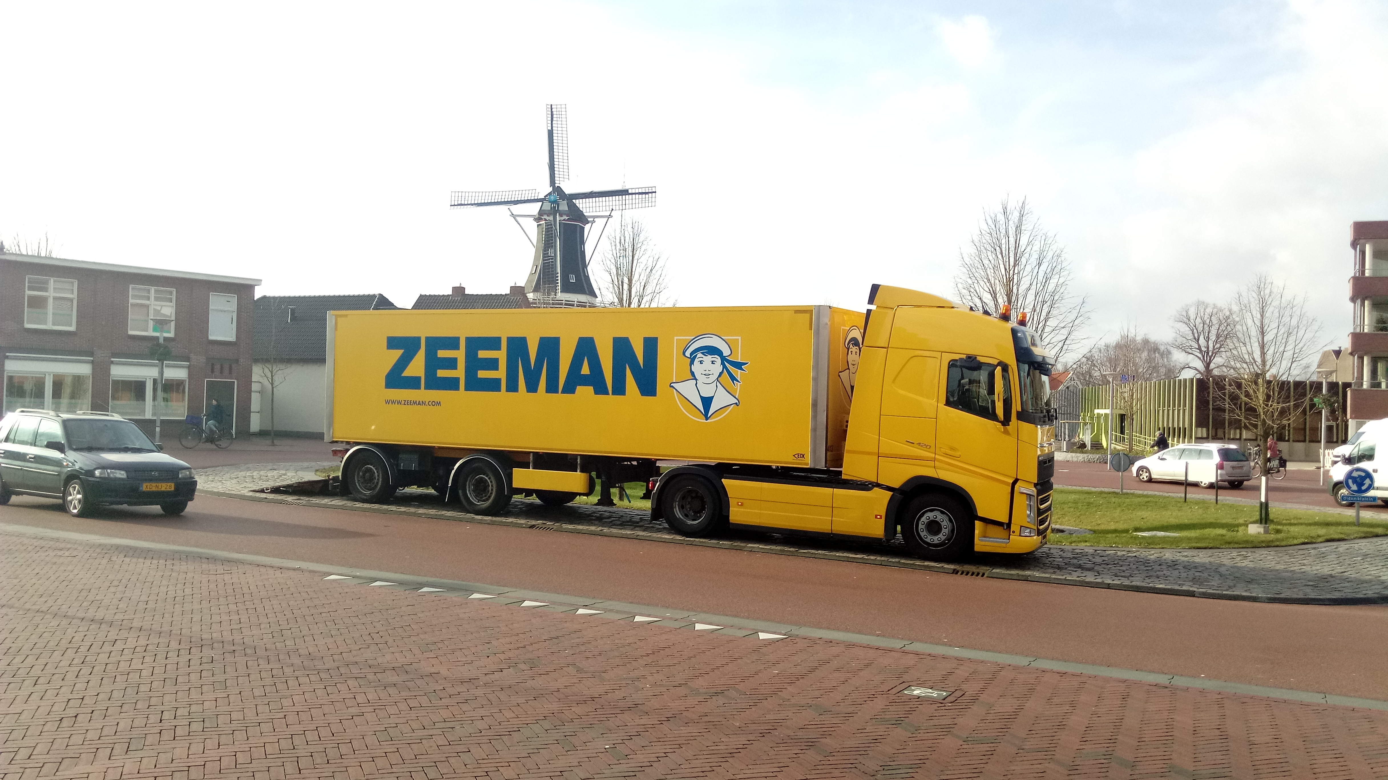 A lorry of the Zeeman clothing shop in the Groninger city of Winschoten, Oldambt.